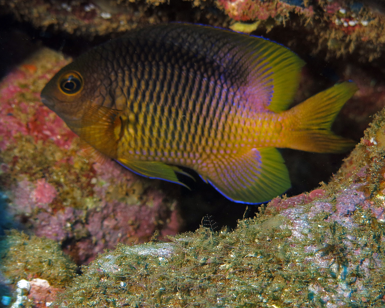 Revillagigedo, Mexico, March 2015